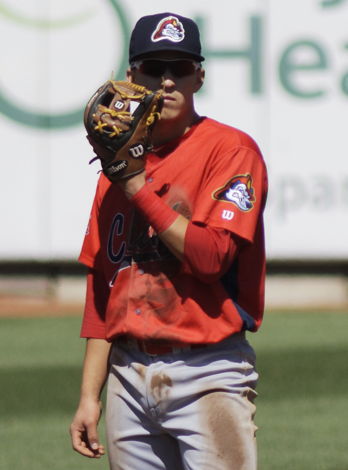 Tommy Edman with the Peoria Chiefs during a 2017 game at Cooley Law School Stadium in Lansing, Michigan.